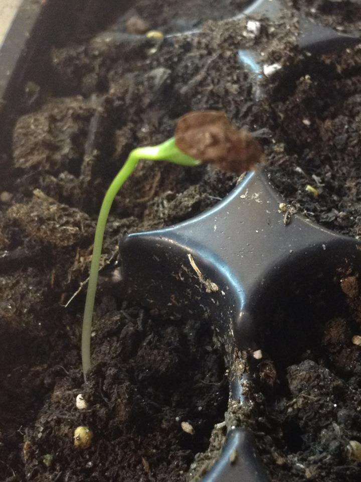 A milkweed sprout with seed capsule